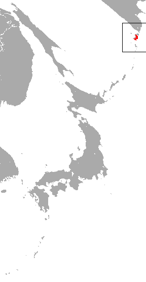 Paramushir Shrew (Sorex leucogaster) range